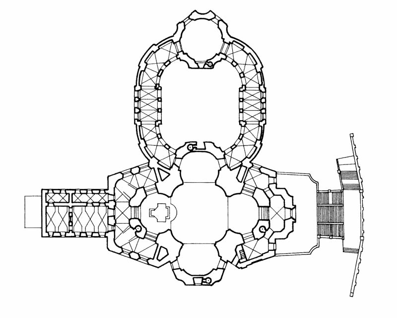 Ground plan of Church of Pilgrimage Church of the Name of Virgin Mary in Křtiny u Brna by Jan Santini Aichel